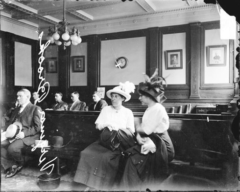 Portrait of Miss Virginia Brooks, an unidentified woman and men sitting in a room with long wooden benches possibly in Calumet City, Illinois? Citation needed with references. (This photonegative taken by a Chicago Daily News photographer may have been published in the newspaper.)